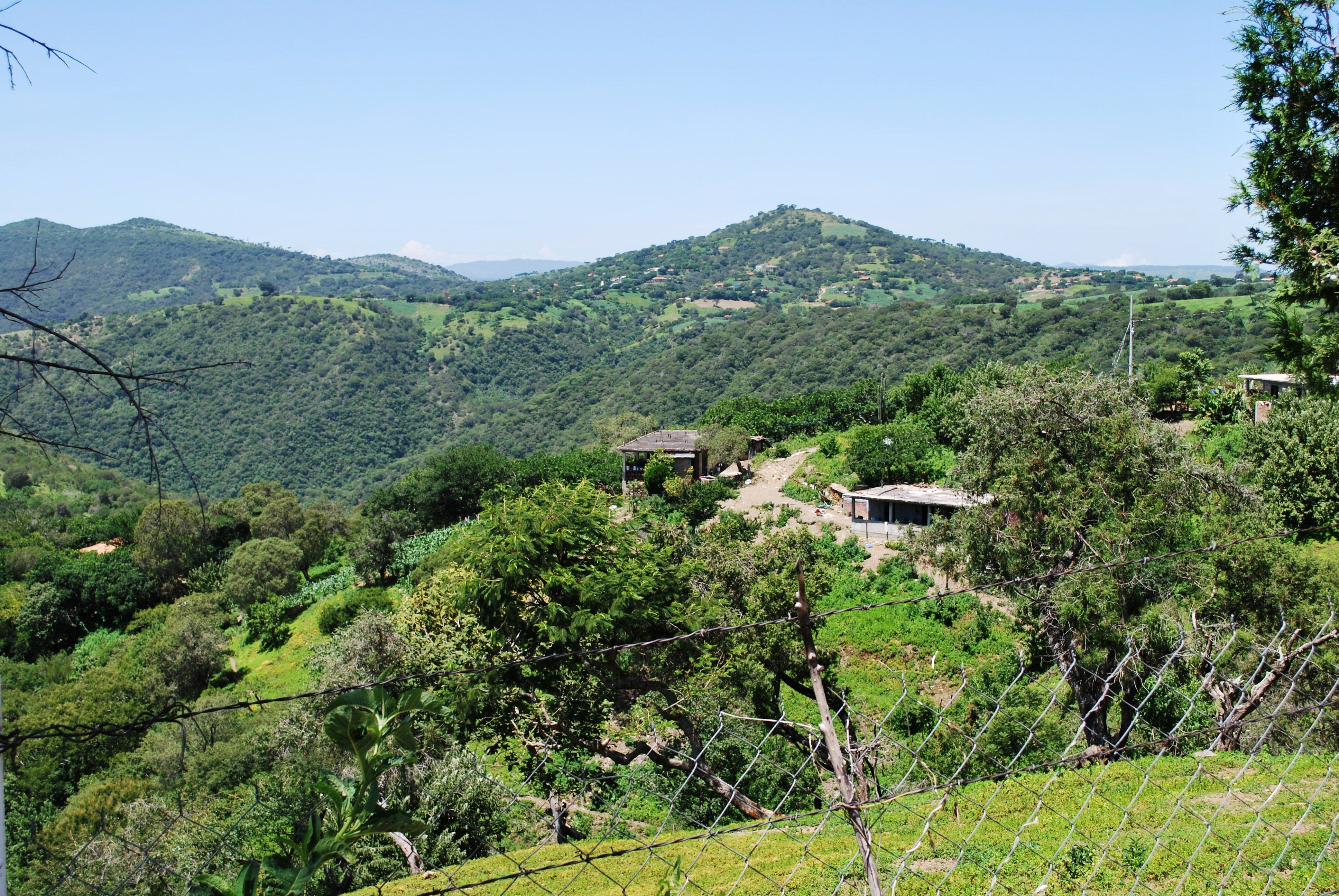 Looking south from the archeological site of Ixcateopan, Ixcateopan, Guerrero, Mexico